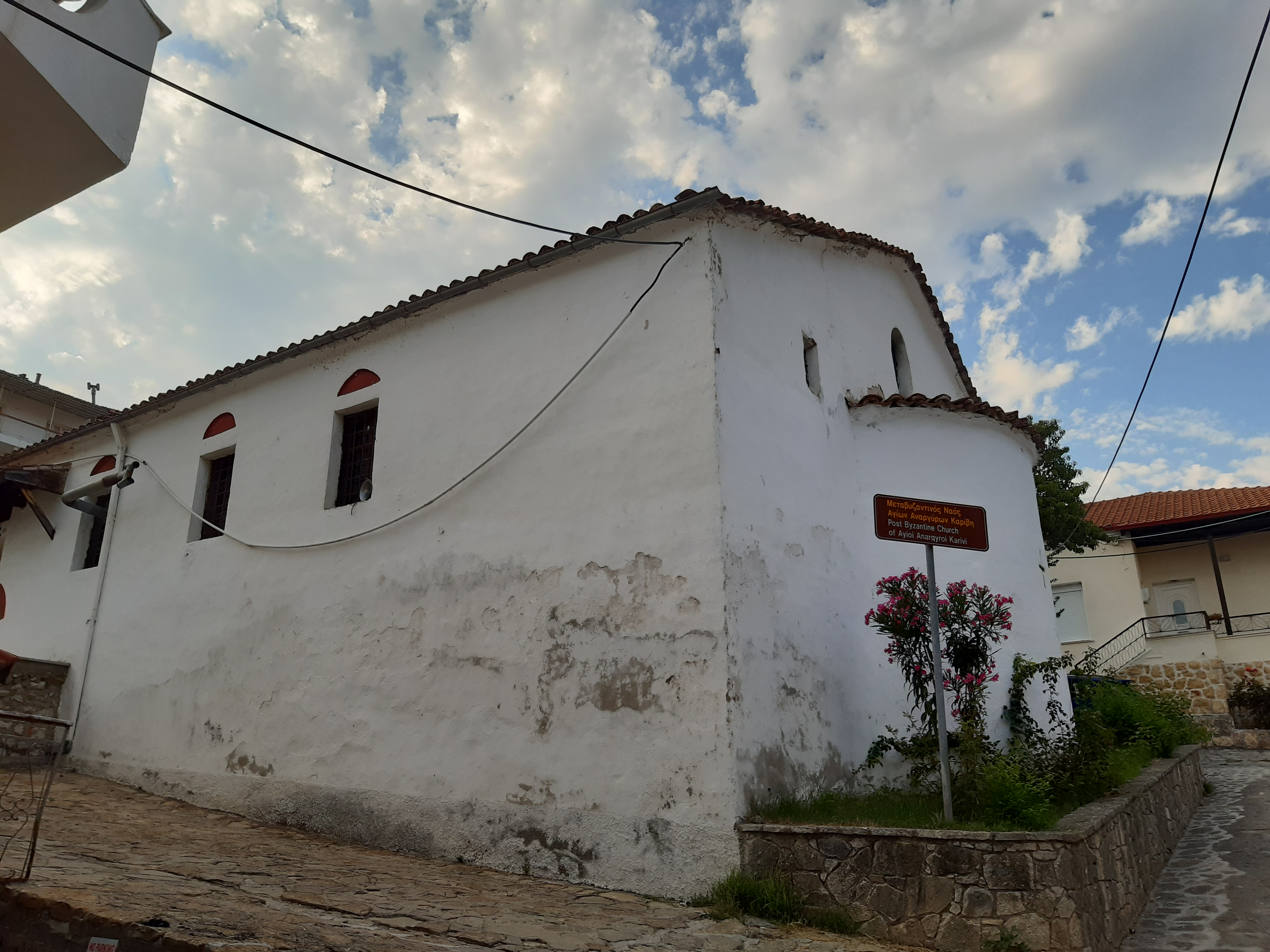 Saints Cosmas and Damian of Karivis Church